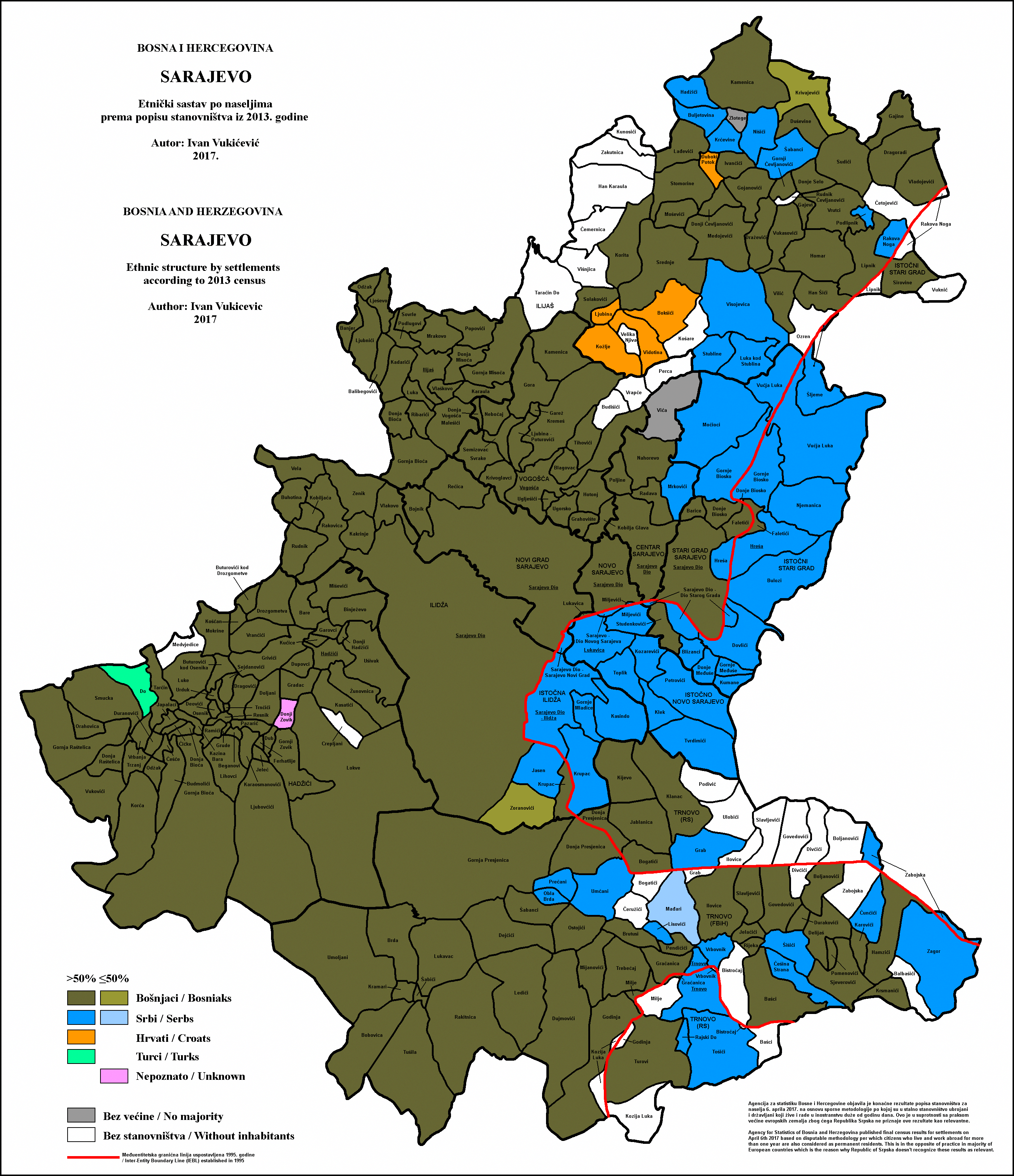 Ethnic structure of Sarajevo by settlements 2013. Authorː Ivan Vukicevic